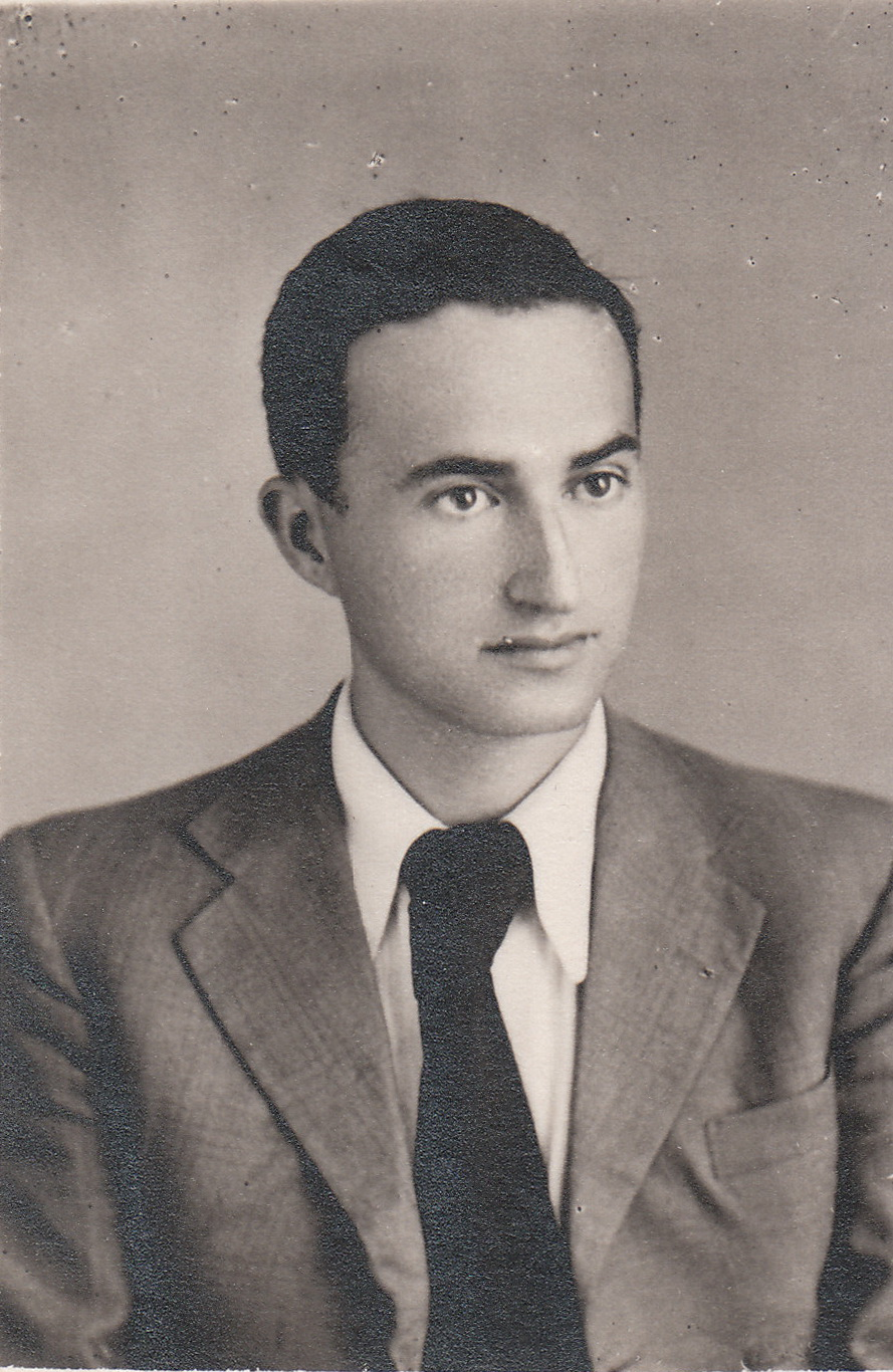 Pavle Stefanovic, 1934.